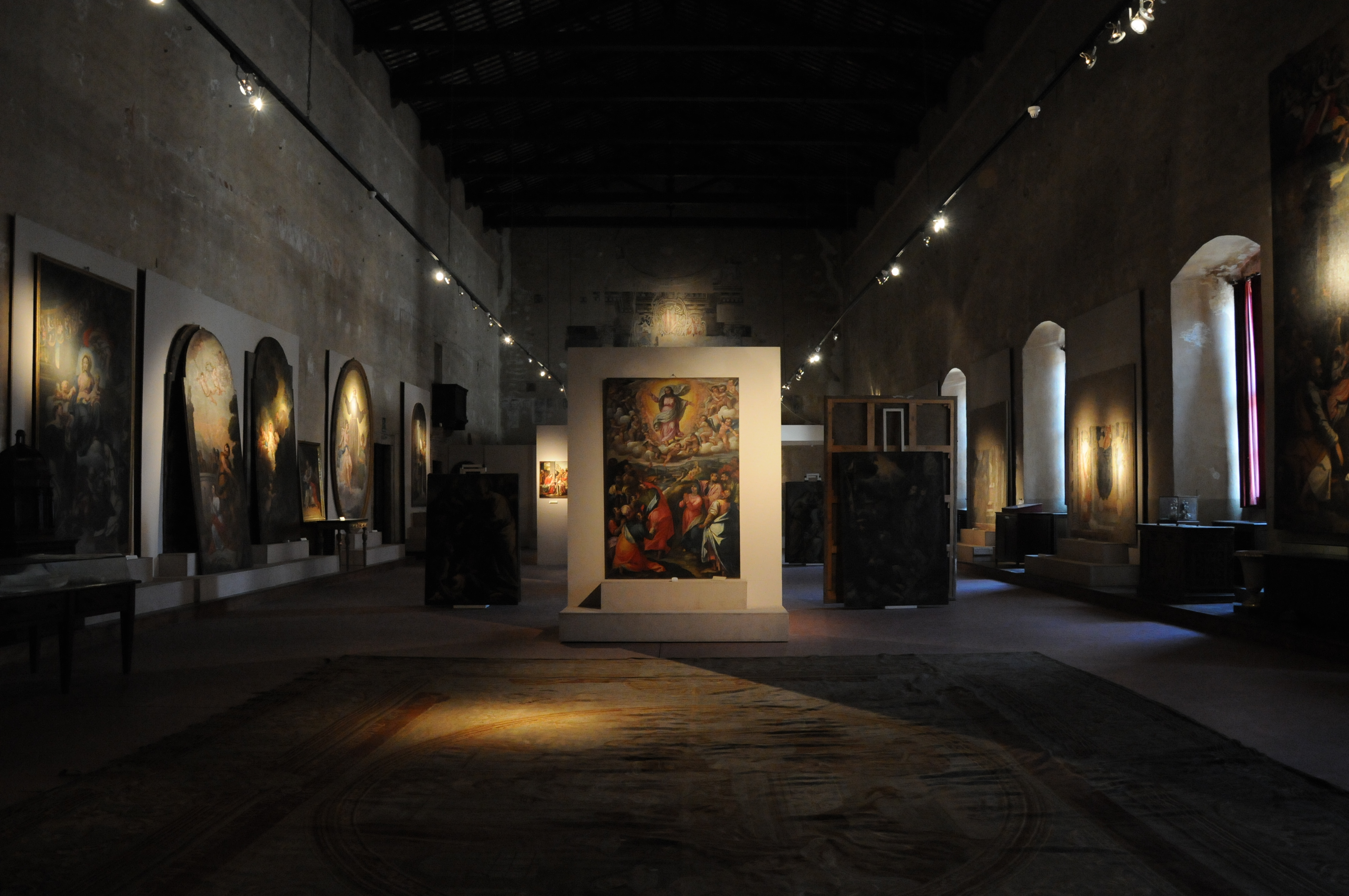 Painting gallery of Diocesan Museum of Rieti (Lazio, Italy). It is located in the 1st floor of Palazzo Vescovile.